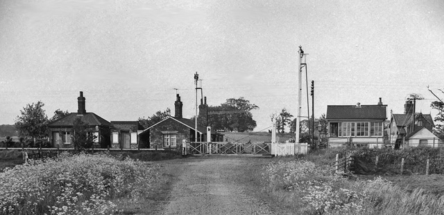 Buckenham Station. View NE across ex-Great Eastern line, Norwich (left) - Reedham (right), Lowestoft and Yarmouth (Vauxhall). This station survives.